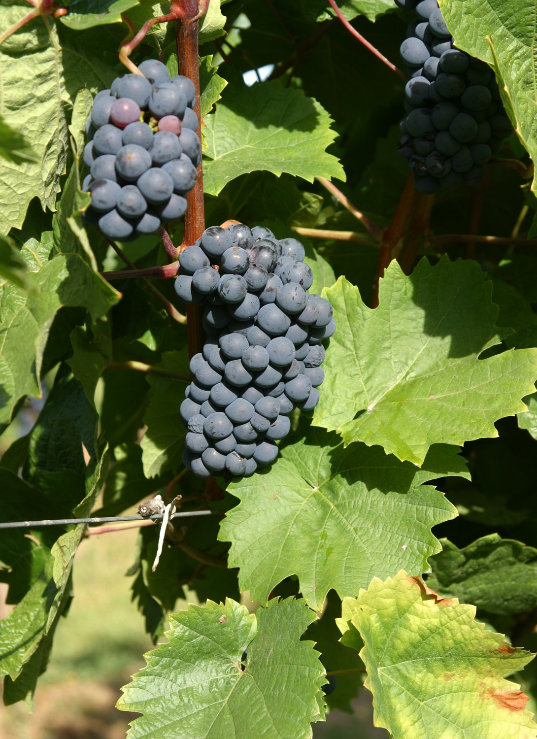 Leafs and grapes of the red grape variety Heroldrebe.